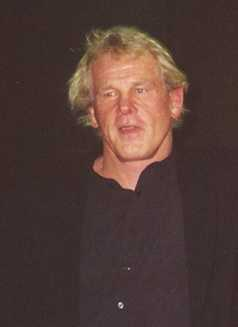 Nick Nolte, Aaron Eckhart, not sure, and Alan Cumming here to promote Neverwas at the 2005 Toronto Film Festival